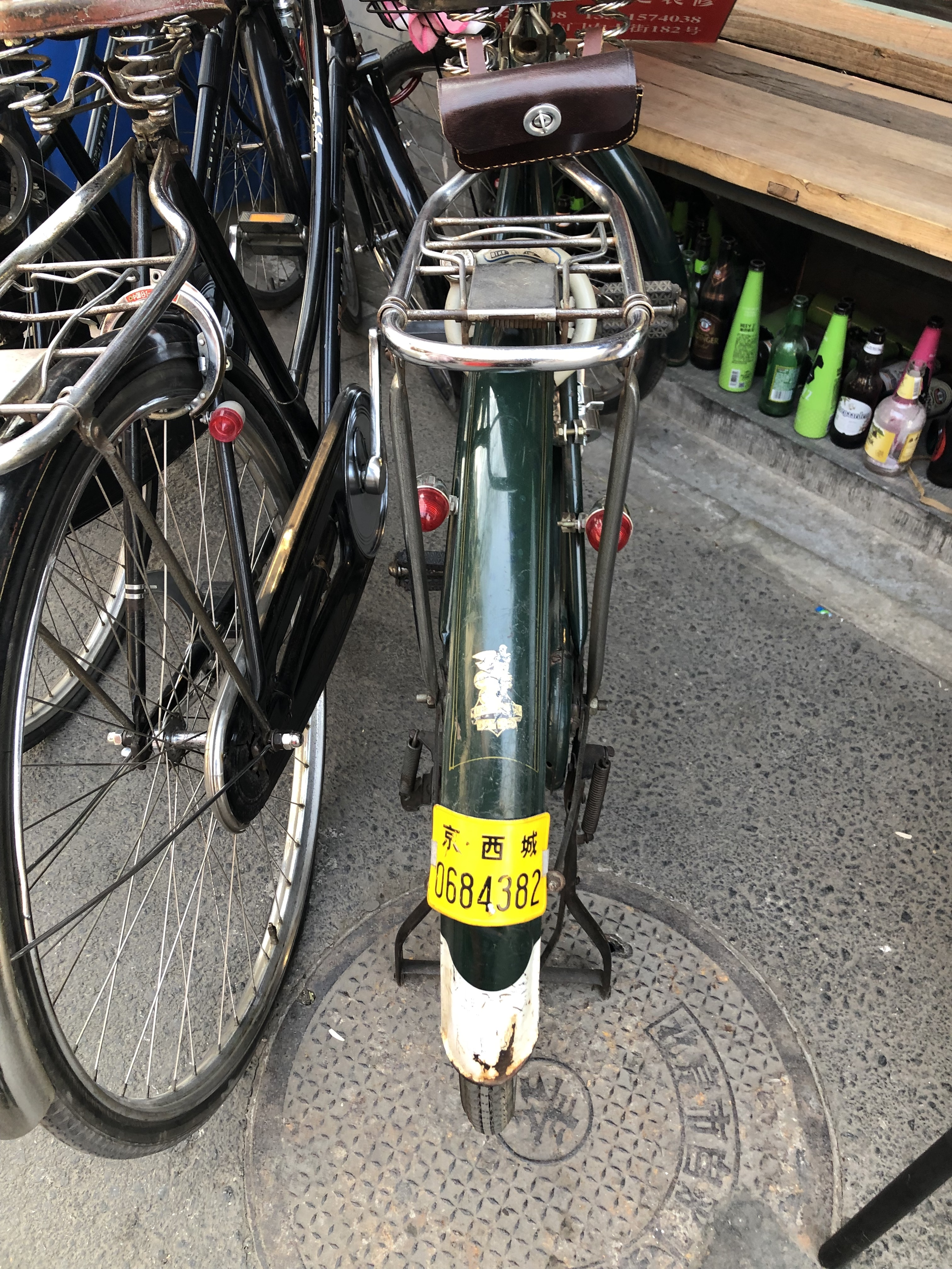 Beijing Bicycle Plate